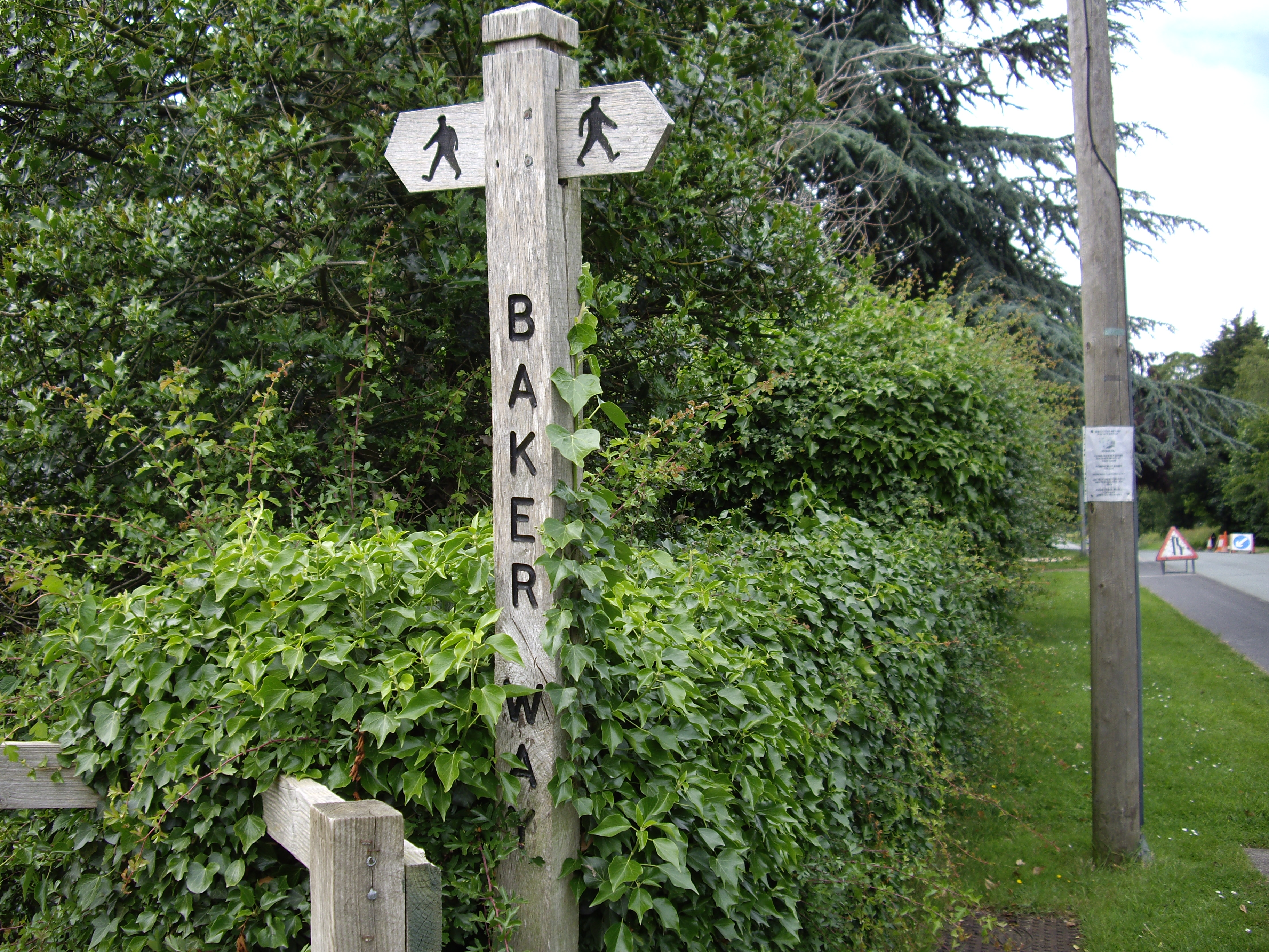 Author and Source: G.Brawn Summary Author and Source: G.Brawn